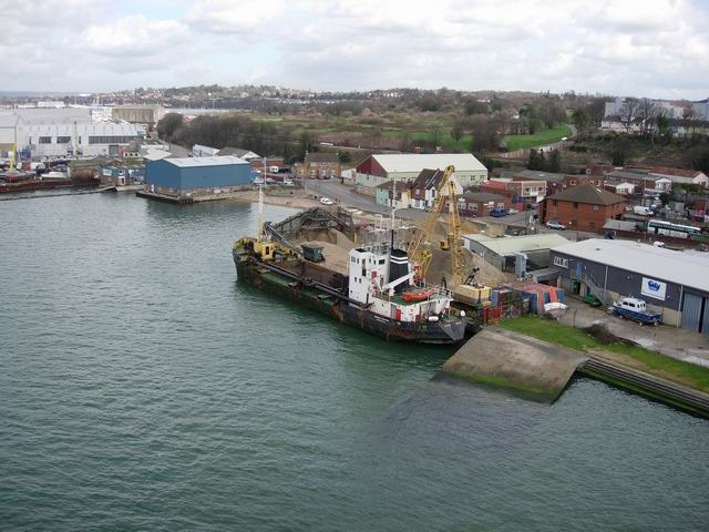 Industry along Itchen Viewed from the Itchen bridge. A hovercraft is being built in the blue shed. Peartree Green behind.